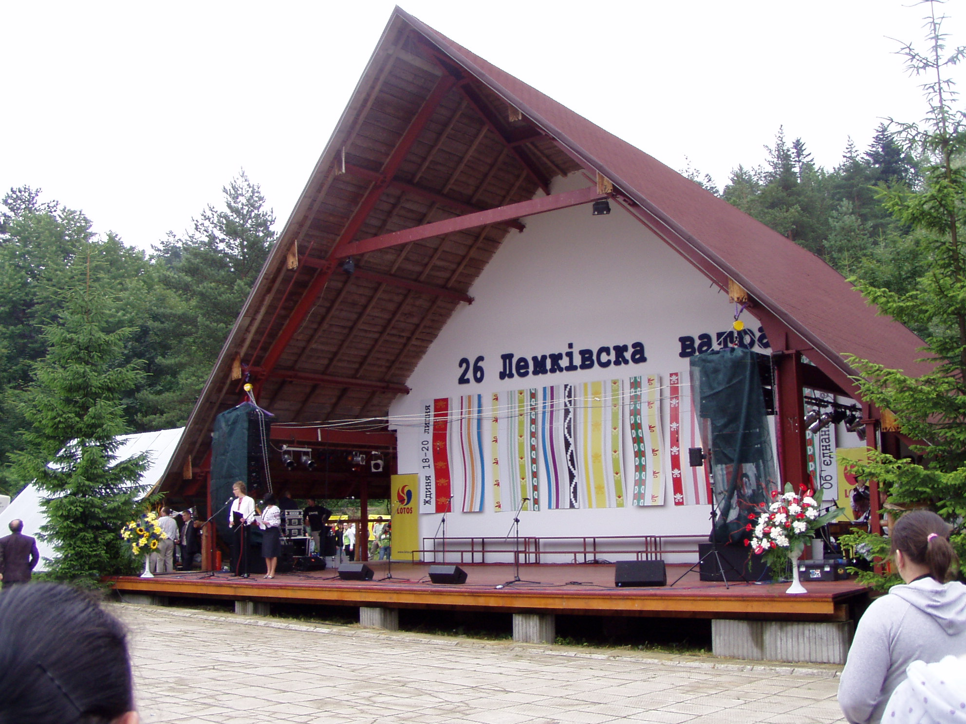 Lemkiwska Watra w Zdyni 2008